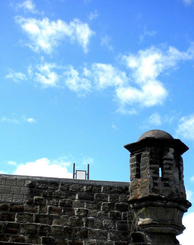 Fort Queen Louise: it was designed and built in 1794 by the Captain of the Royal Engineers don Manuel Olaguer Feliú.